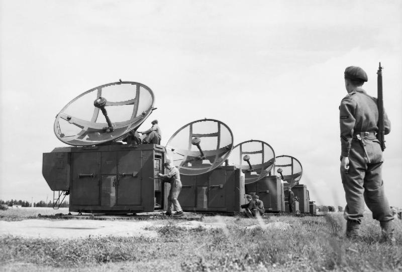 A Royal Air Force Regiment sentry stands guard whilst German technicians assemble captured FuMG 64 "Mannheim" 41 T radar equipment at Grove airfield in Denmark in preparation for sending it to the UK for evaluation, 2 August 1945. The FuMG 64 was an fire control radar which had a range of 25 to 30 km. Associated people and organisations Royal Air Force, Royal Air Force Regiment Associated places Denmark Associated events Liberation of Denmark 1945, Denmark, Second World War Associated themes North West Europe 1944-1945, Royal Air Force 1939-1945 Associated keywords electronic warfare